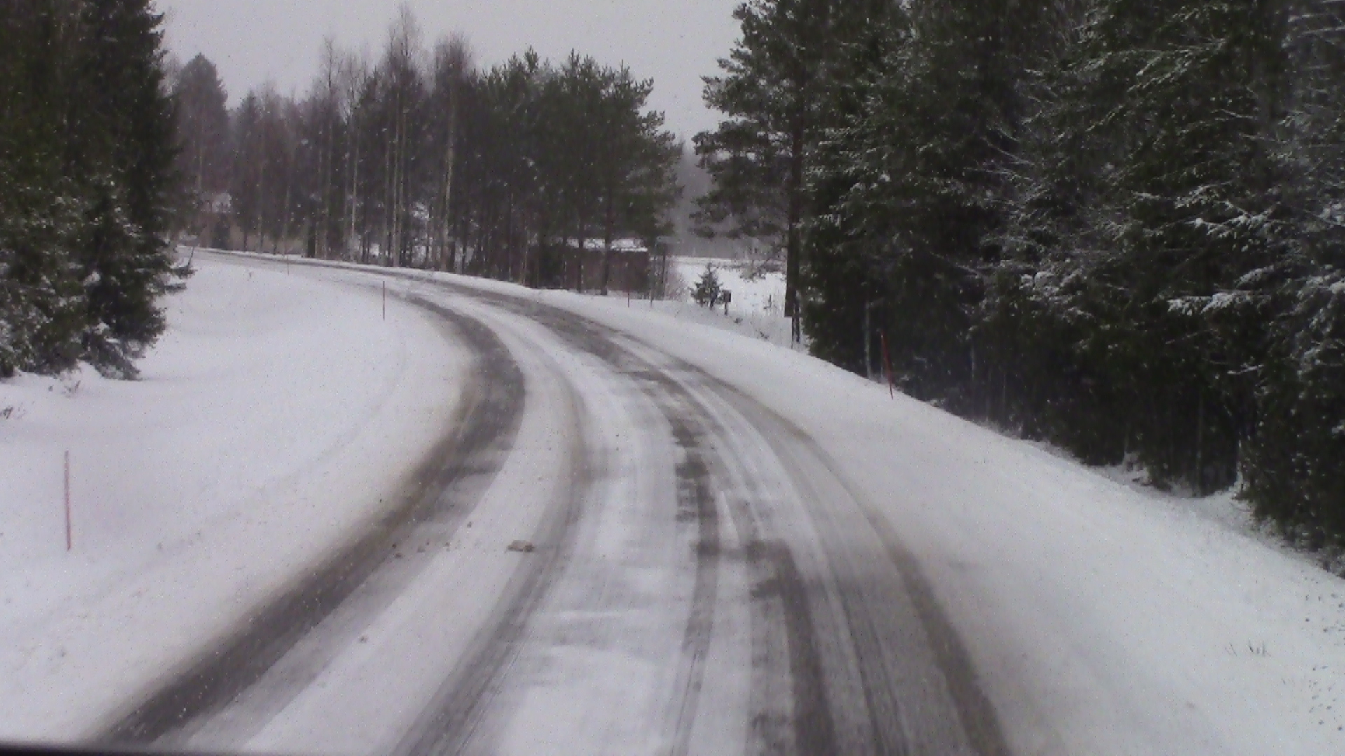 Finnish regional road 661 near Uuro village in Kauhajoki. The road runs from Merikarvia to Kauhajoki via Isojoki.